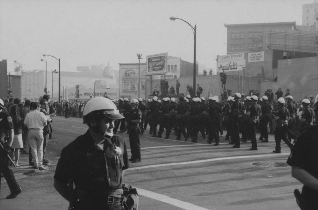 The photograph depicts a legion of police officers deploying at the 14th and Clay streets to greet the arrival of anti-draft demonstrators on a march from the University of California, Berkeley campus during Stop the Draft Week, Oct. 1967. Negative number in the Oakland History Room: F-2970.